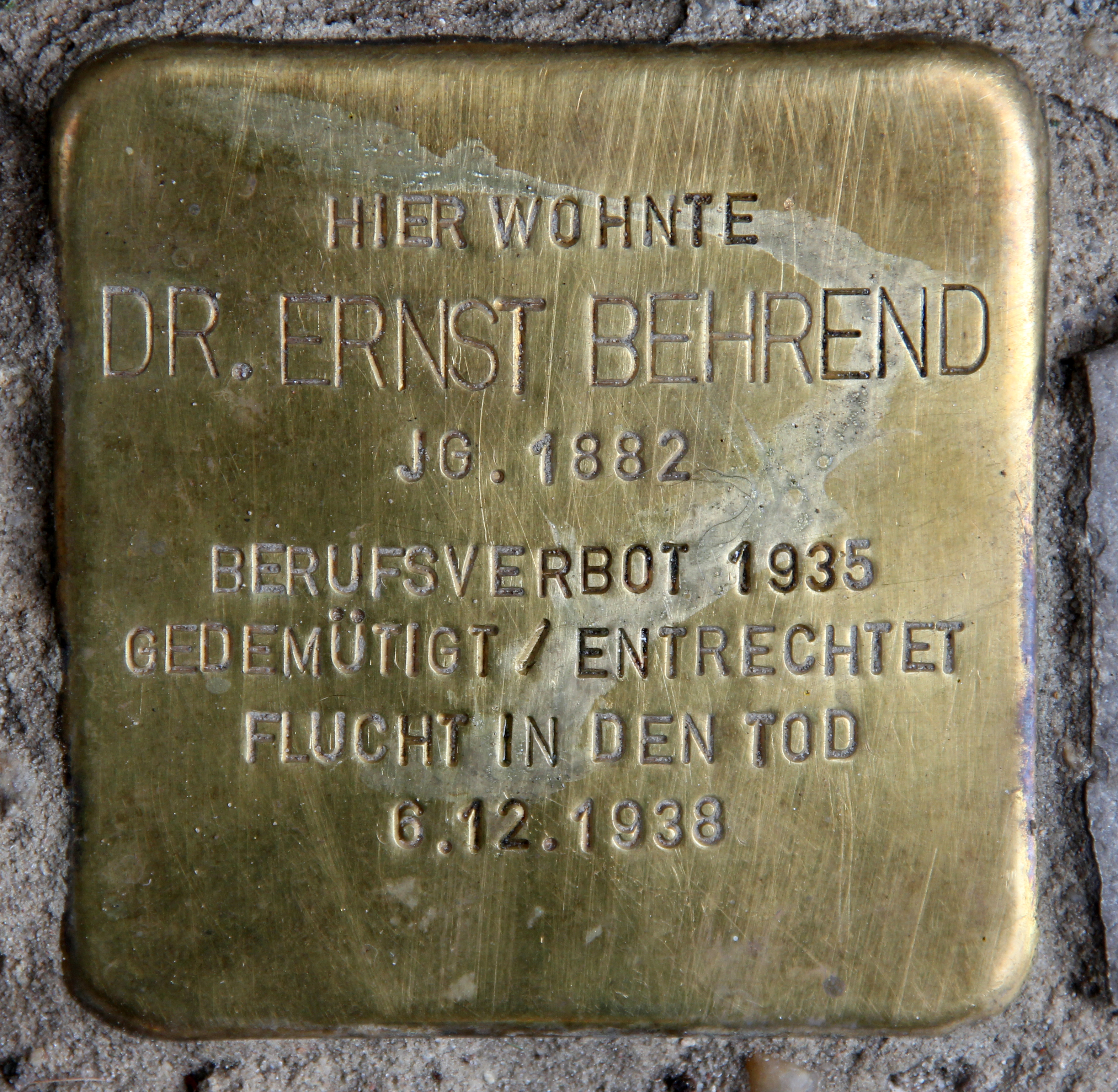 "Stolperstein" (stumbling block), Ernst Behrend, Seesener Straße 28, Berlin-Halensee, Germany